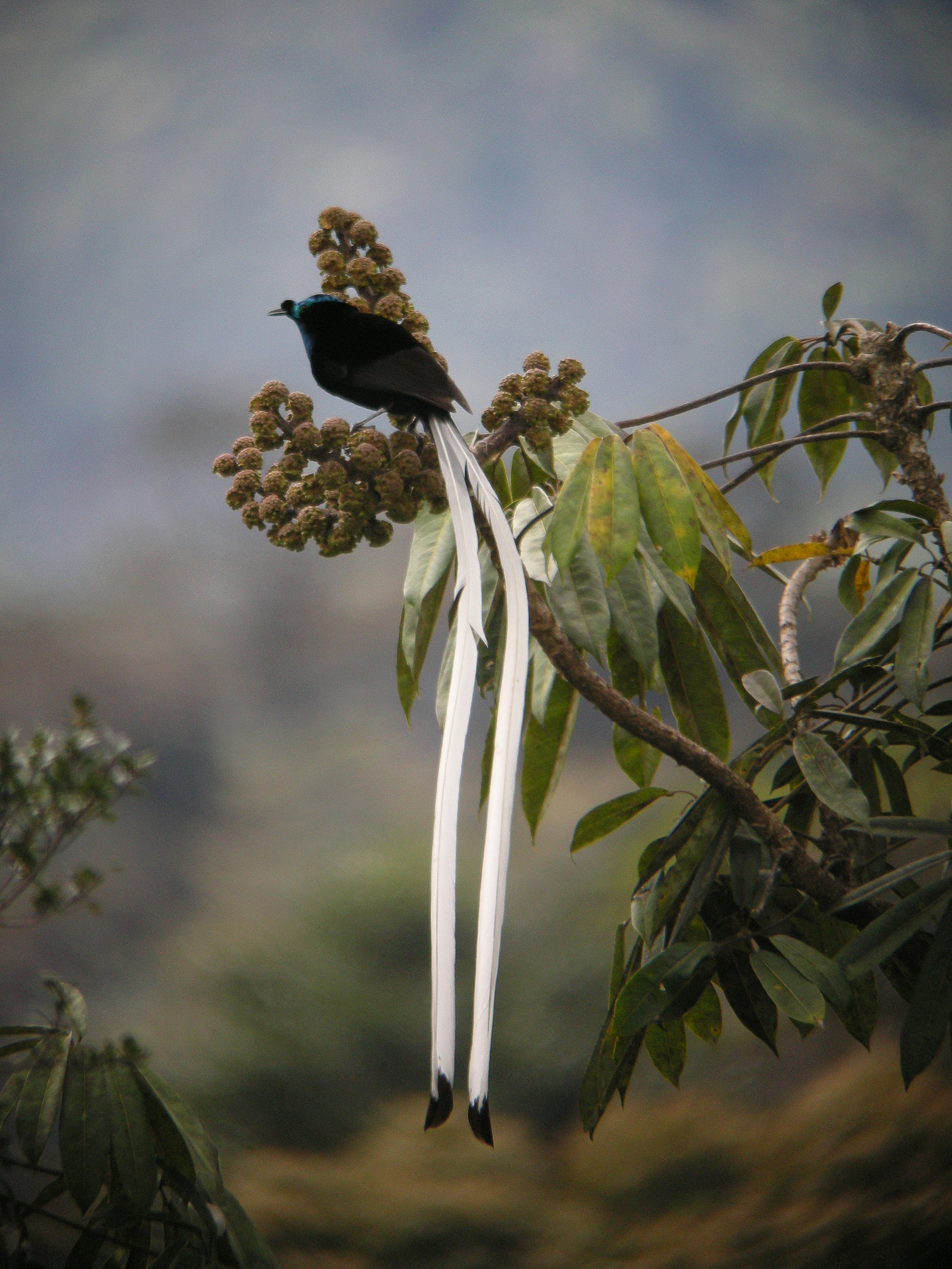 An adult male Ribbon-tailed Astrapia in Papua New Guinea.